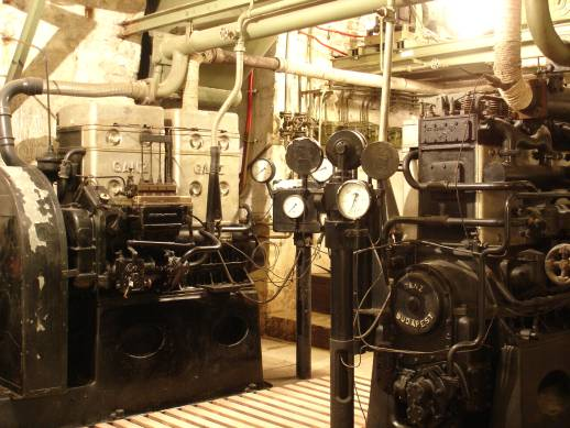 Hospital in the Rock, Budapest, engine room